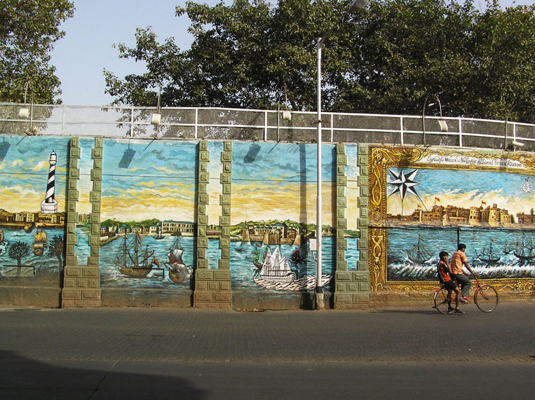 The mural depicting India's maritime traditions at the Naval Dockyard